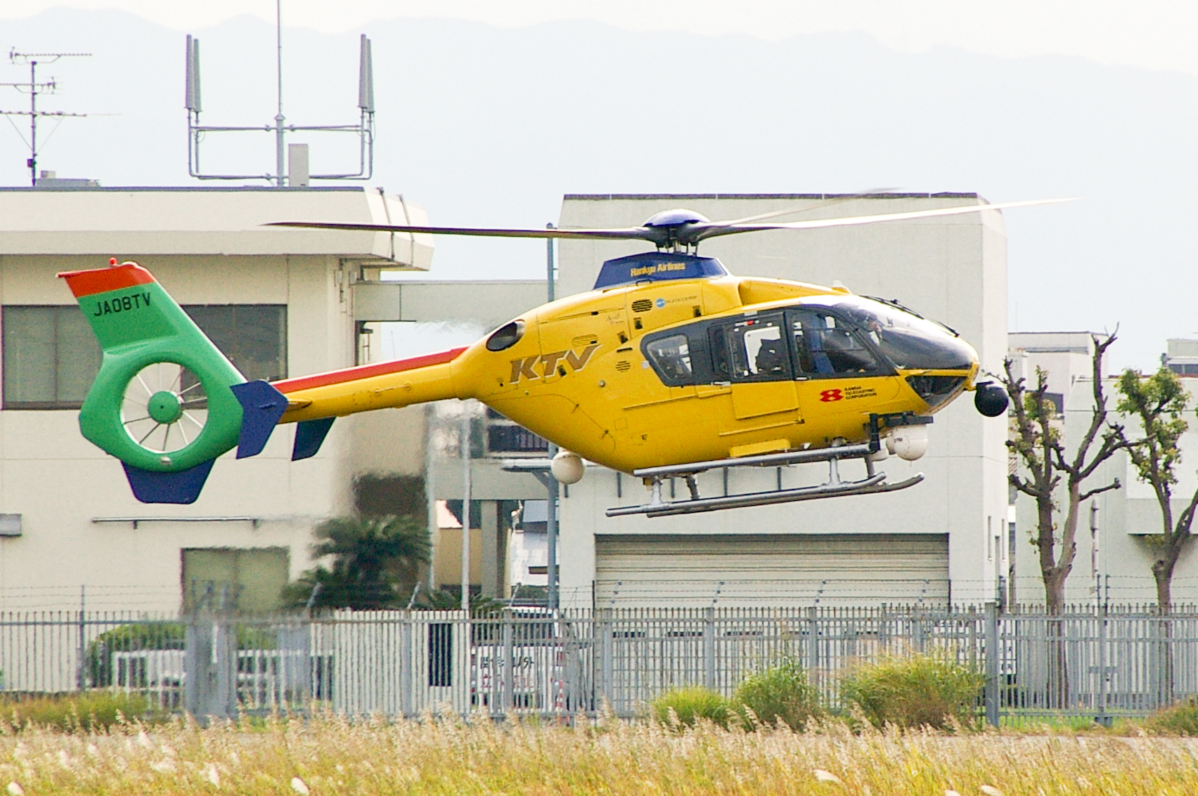 Photograph of Hankyu Airlines' Eurocopter EC135T1 (JA08TV) chartered by Kansai Telecasting Corporation for news gathering, landing at Yao Airport, taken from Osaka Prefectural Central Wide-area Disaster Prevention Base in Yao, Osaka Prefecture, Japan.